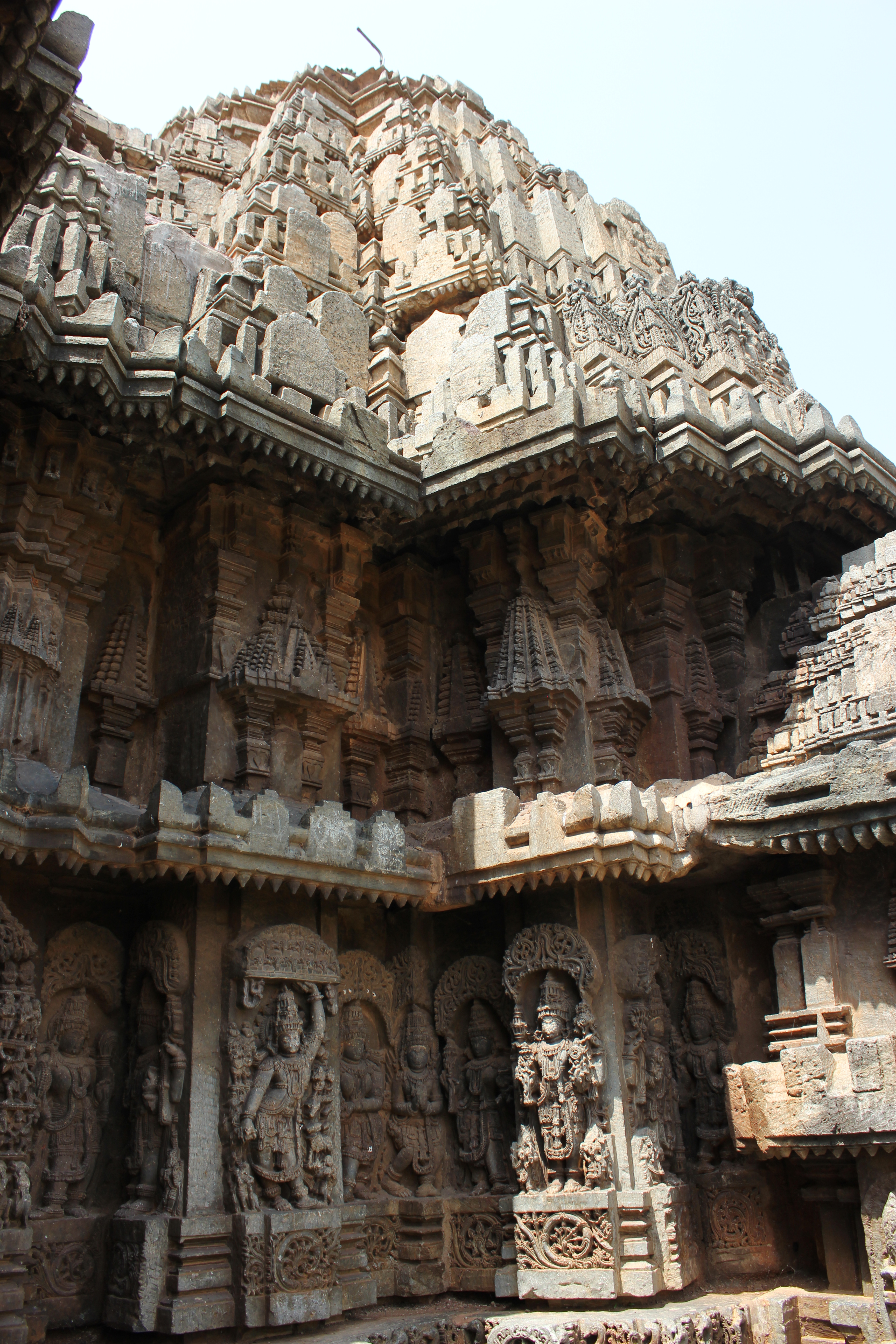 This photograph was taken by me at Haranhalli, Hassan district, Karnataka state, India. The temple, whose main deity is the Hindu god Vishnu, was built in 1235 A.D. by the Hoysala Empire King Vira Someshwara.